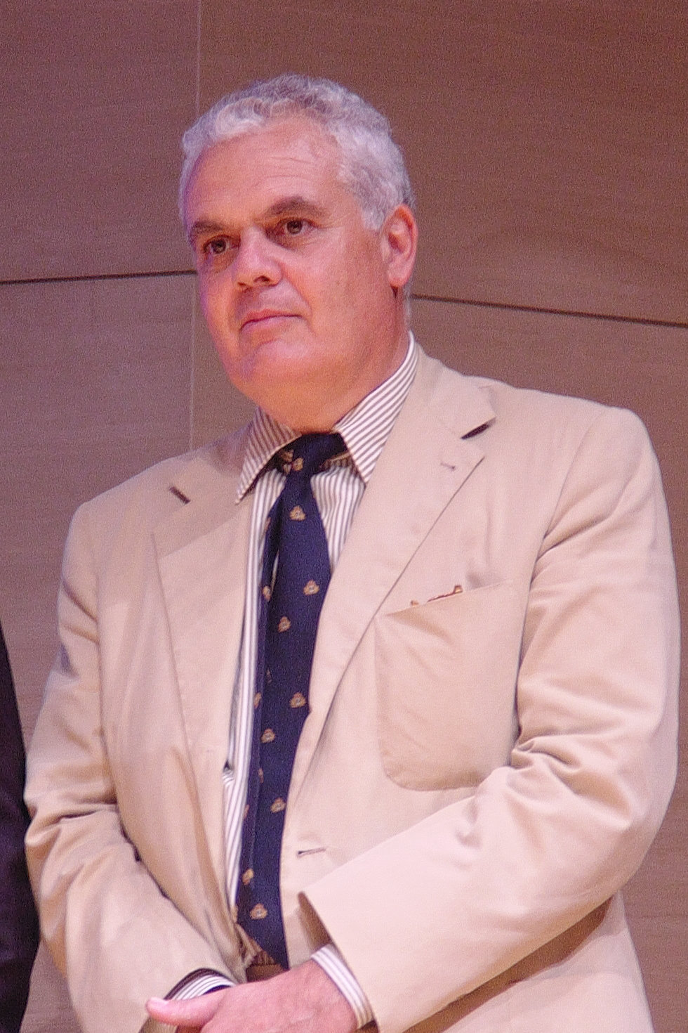 Italian film director Marco Tullio Giordana at the Italian Film Festival in Tokyo, 2 May 2006